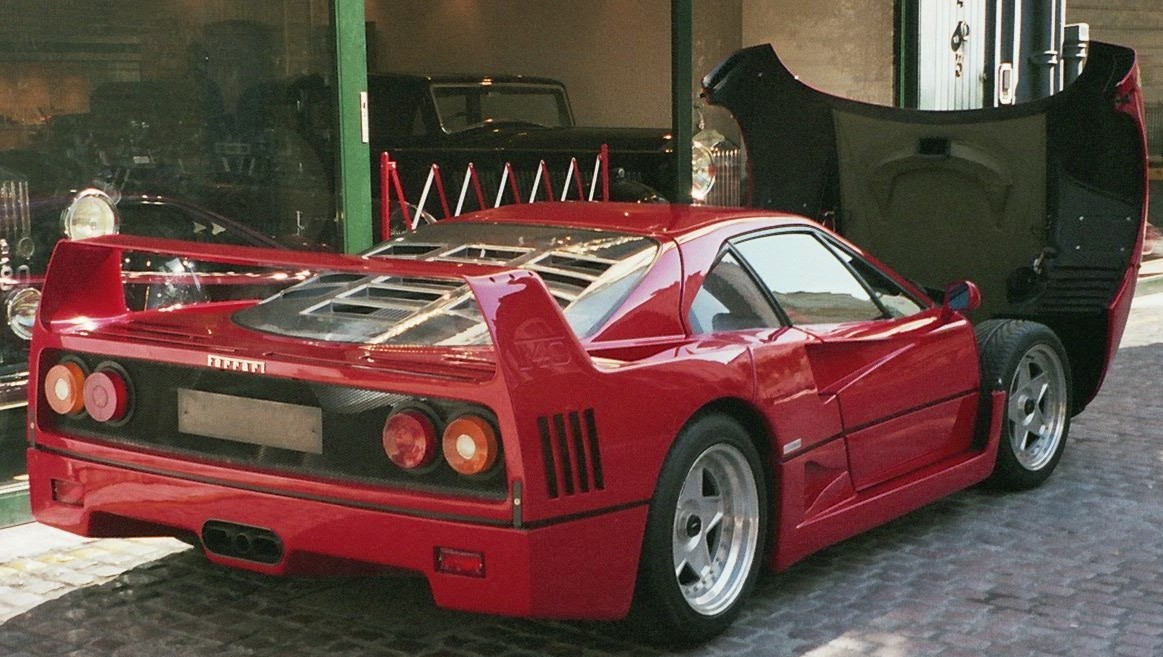 Vintage car sold at Coys of Kensington, London